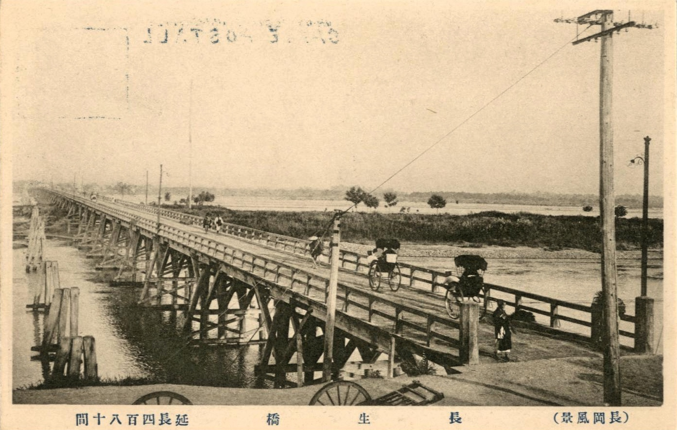 Japanese postcard of the Chōsei Bridge in Nagaoka, Niigata Prefecture